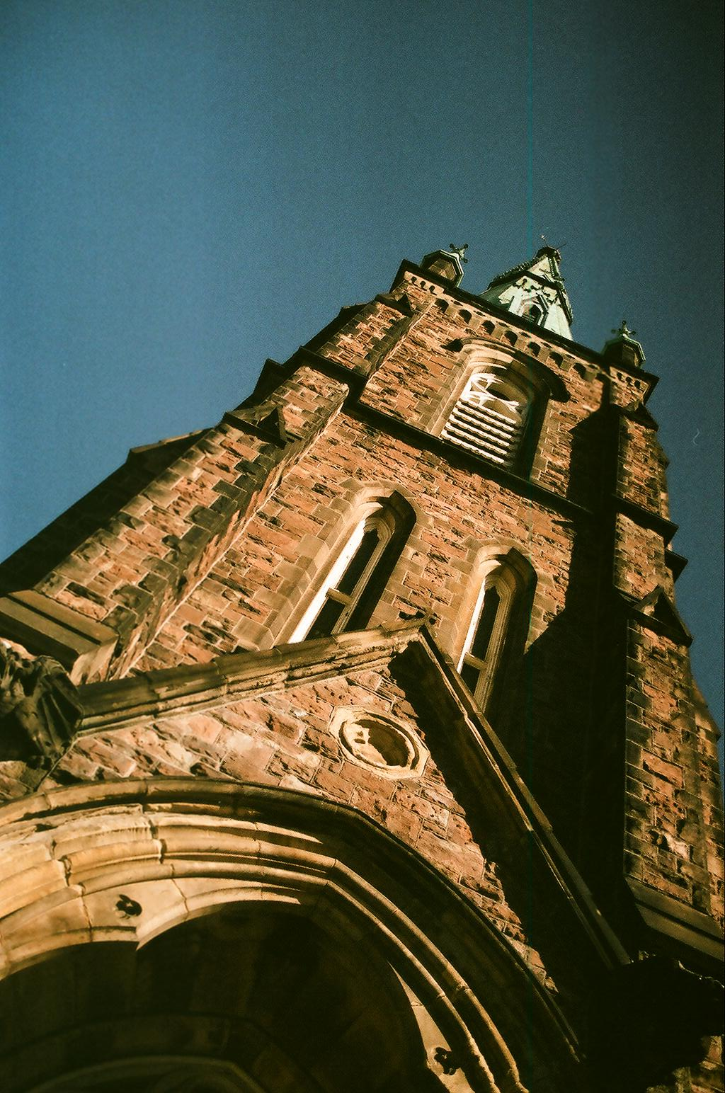 The view of the jarvis street baptist church tower